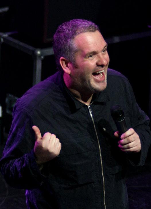 Chris Moyles from a live karaoke event